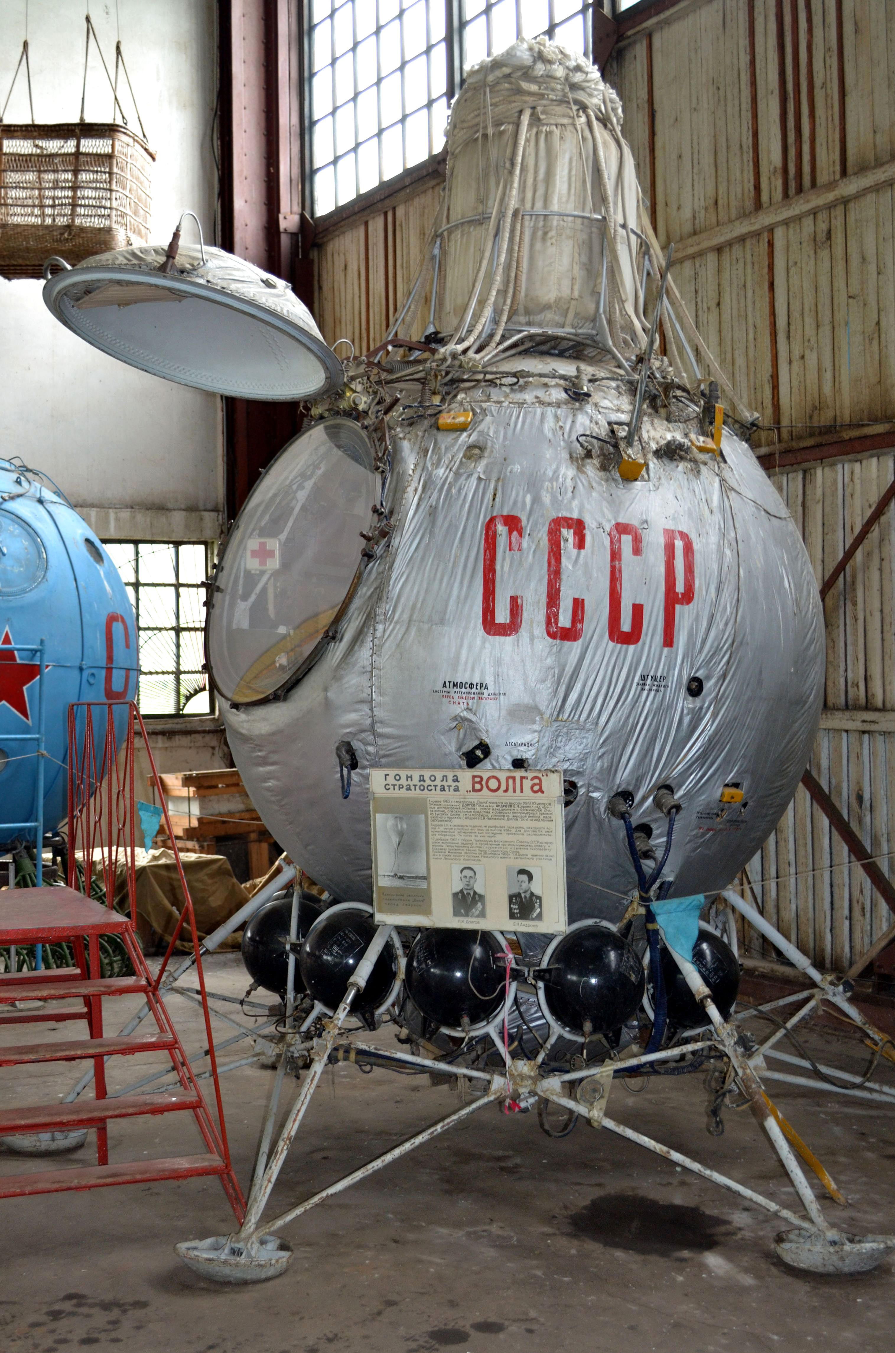 The gondola of the Soviet high-altitude balloon Volga at the Central Air Force Museum in Monino, Russia.